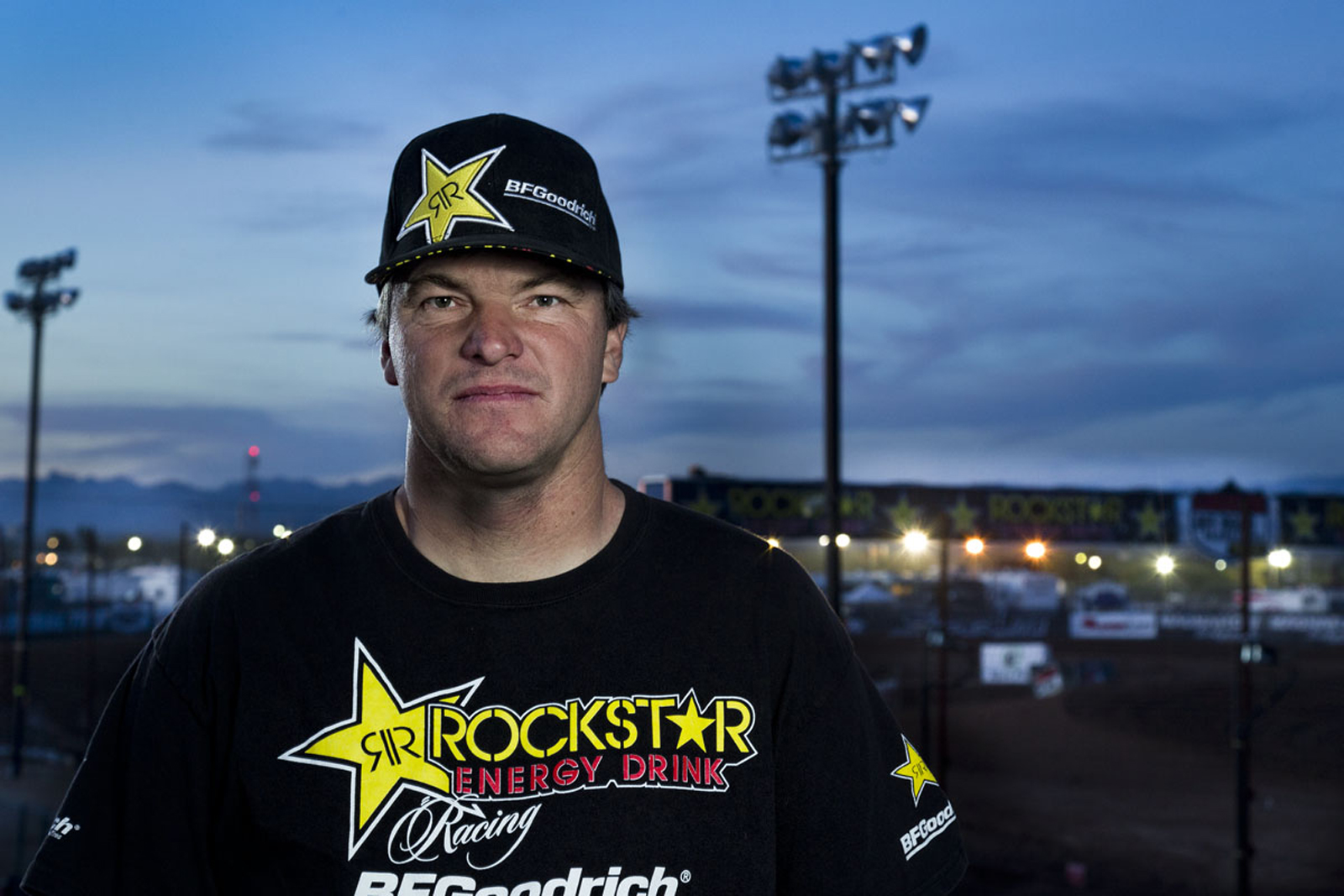 Rob MacCachren at Speedworld for LOORRS short course racing.